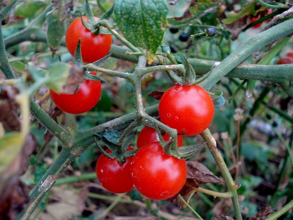 Cherry Tomato